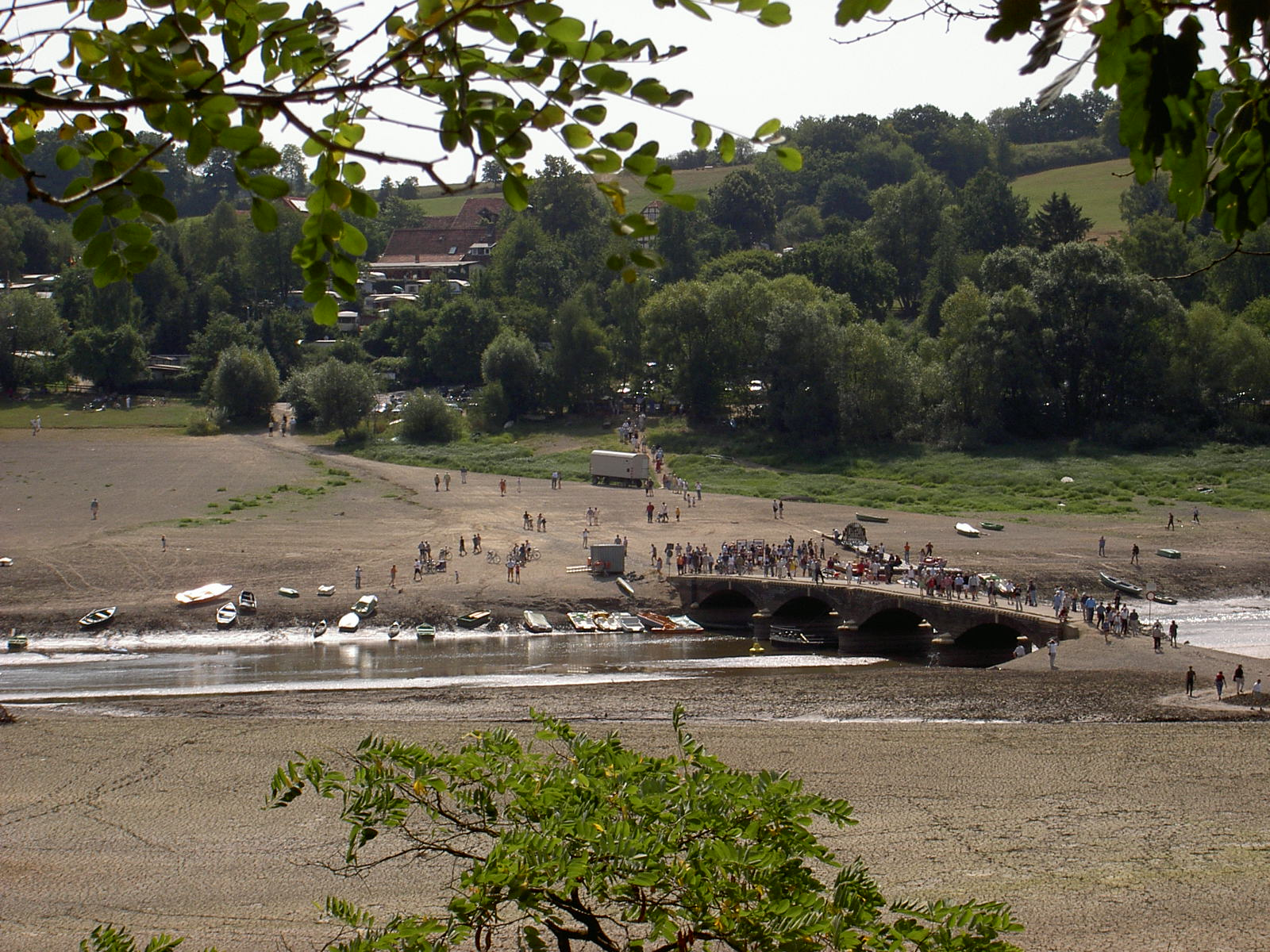 In a hot summer you can see an old bridge in the lake near Asel